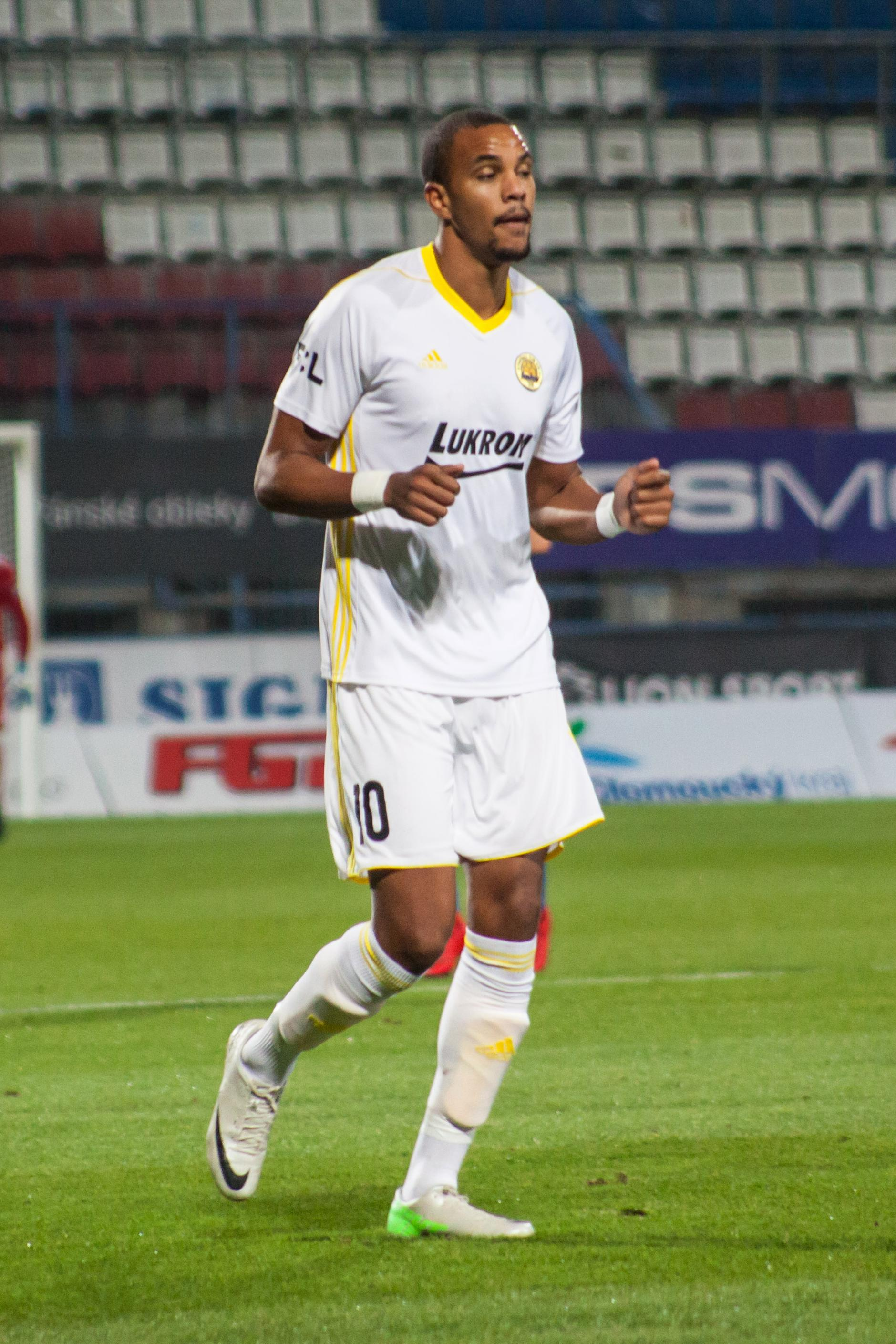 JEAN-DAVID BEAUGUEL At Czech cup (MOL Cup) match SK Sigma Olomouc-FC Fastav Zlín played on 15 November 2018